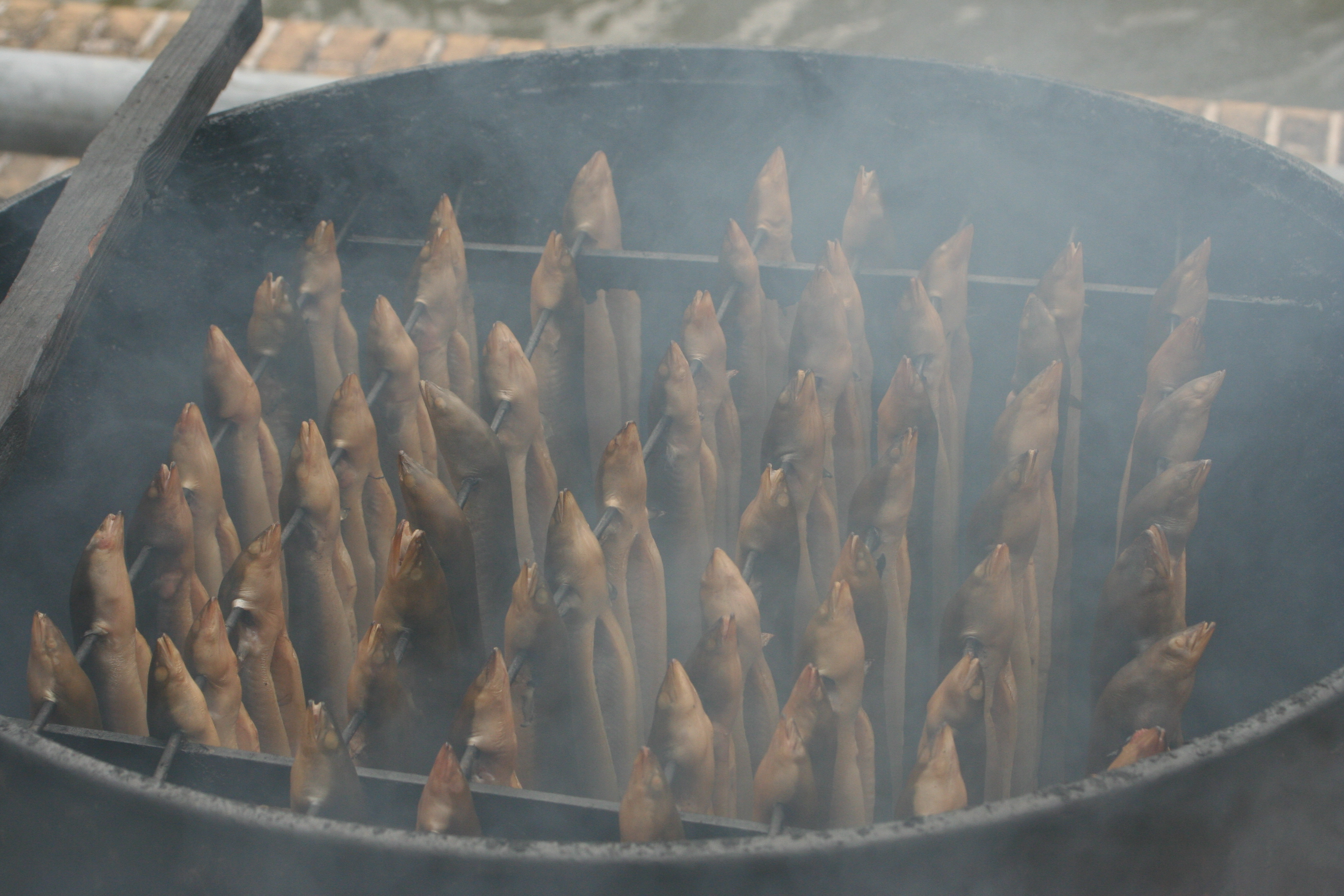 Eel smoking. Exhibition 2007 (Fishermen days, Visserij Dagen).